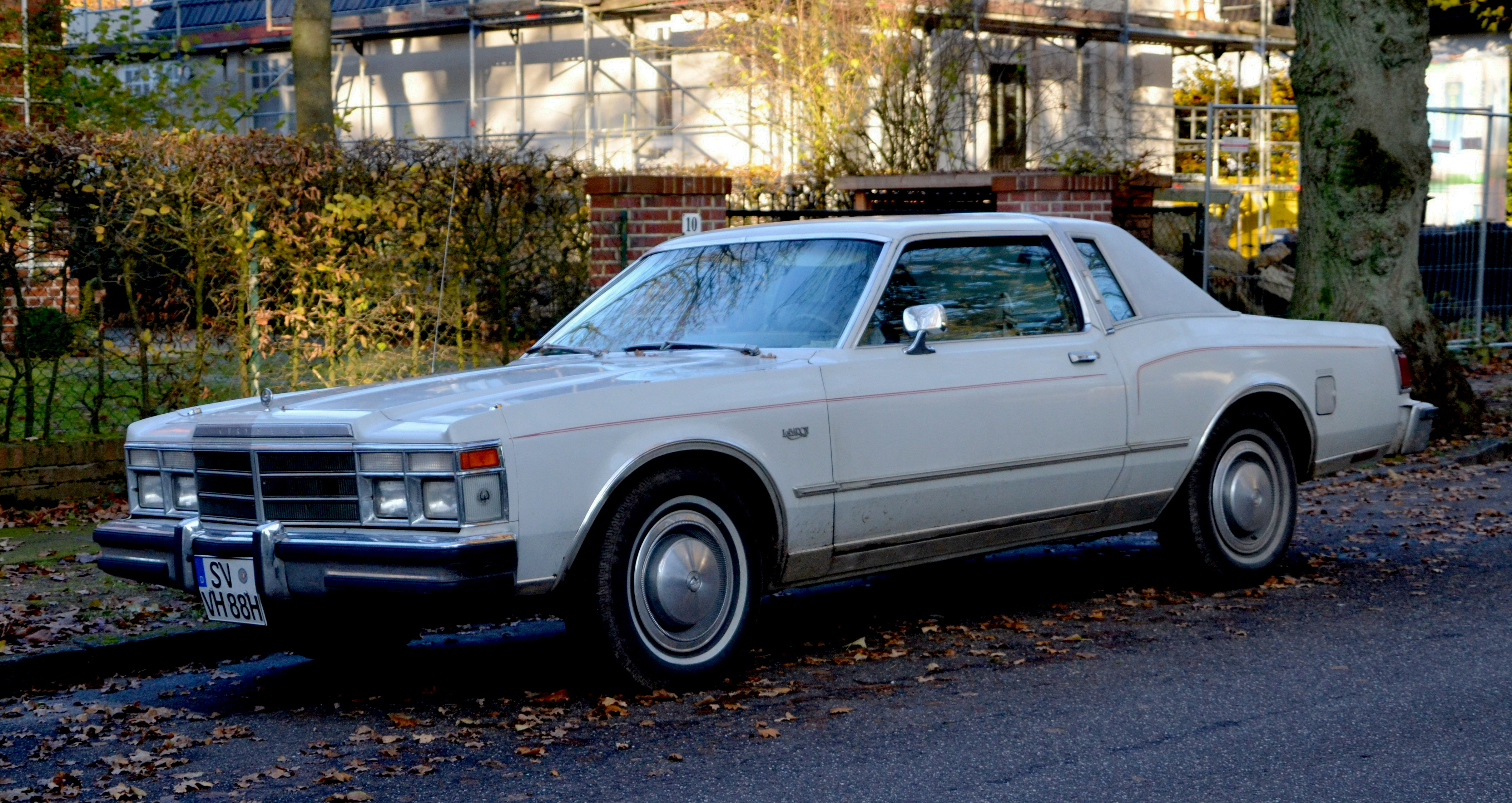 1979 Chrysler LeBaron (M-Body) Coupé, German License. License plate modifyed.